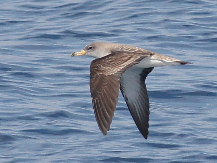 Calonectris diomedea, Scopoli's Shearwater, Greece